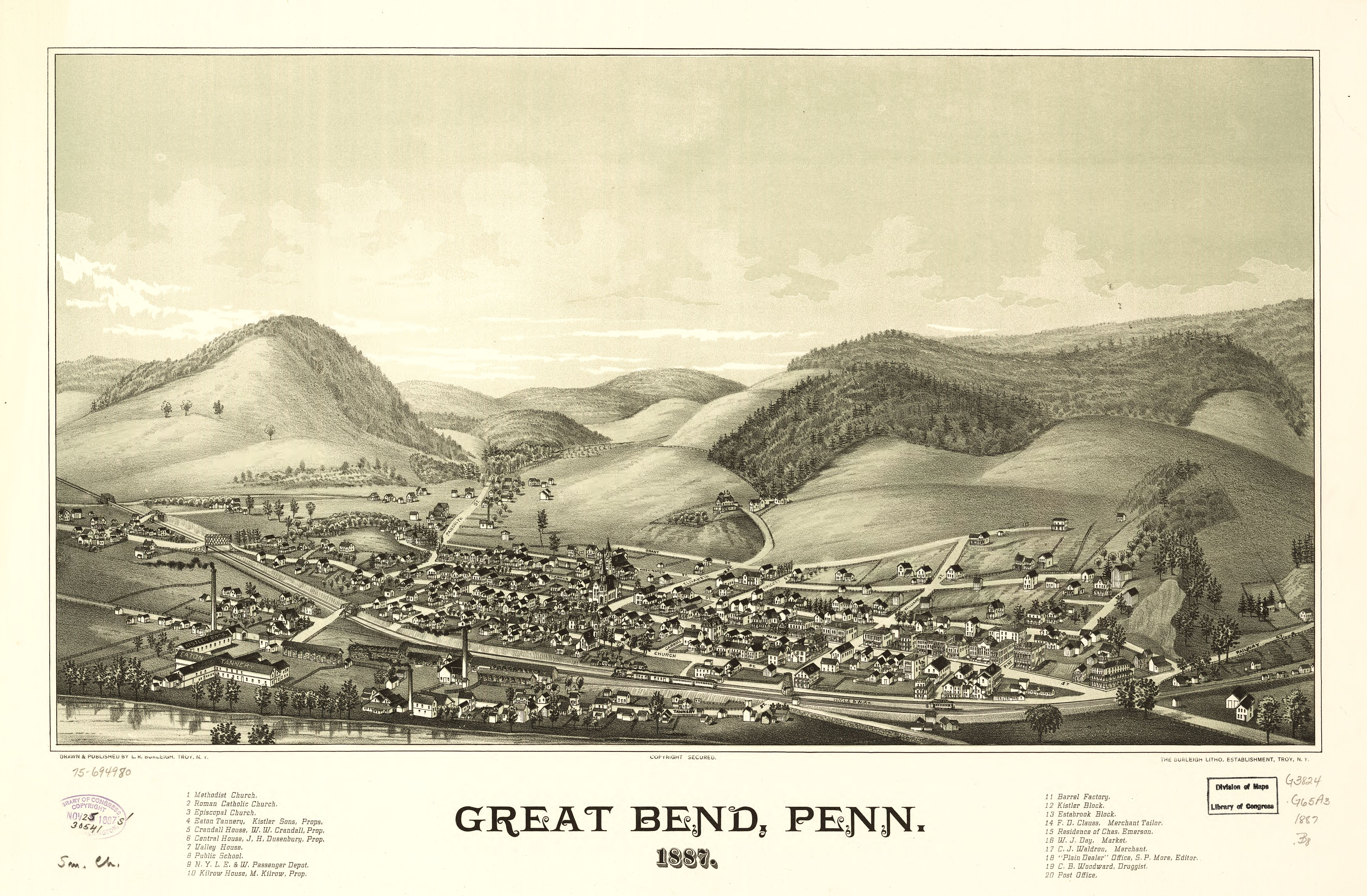 Perspective map not drawn to scale. Bird's-eye-view. LC Panoramic maps (2nd ed.), 782 Available also through the Library of Congress Web site as a raster image. Indexed for points of interest. AACR2